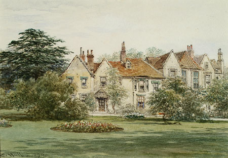 1860's painting of Little Holland House, Kensington, Middlesex, dower house of Holland House.